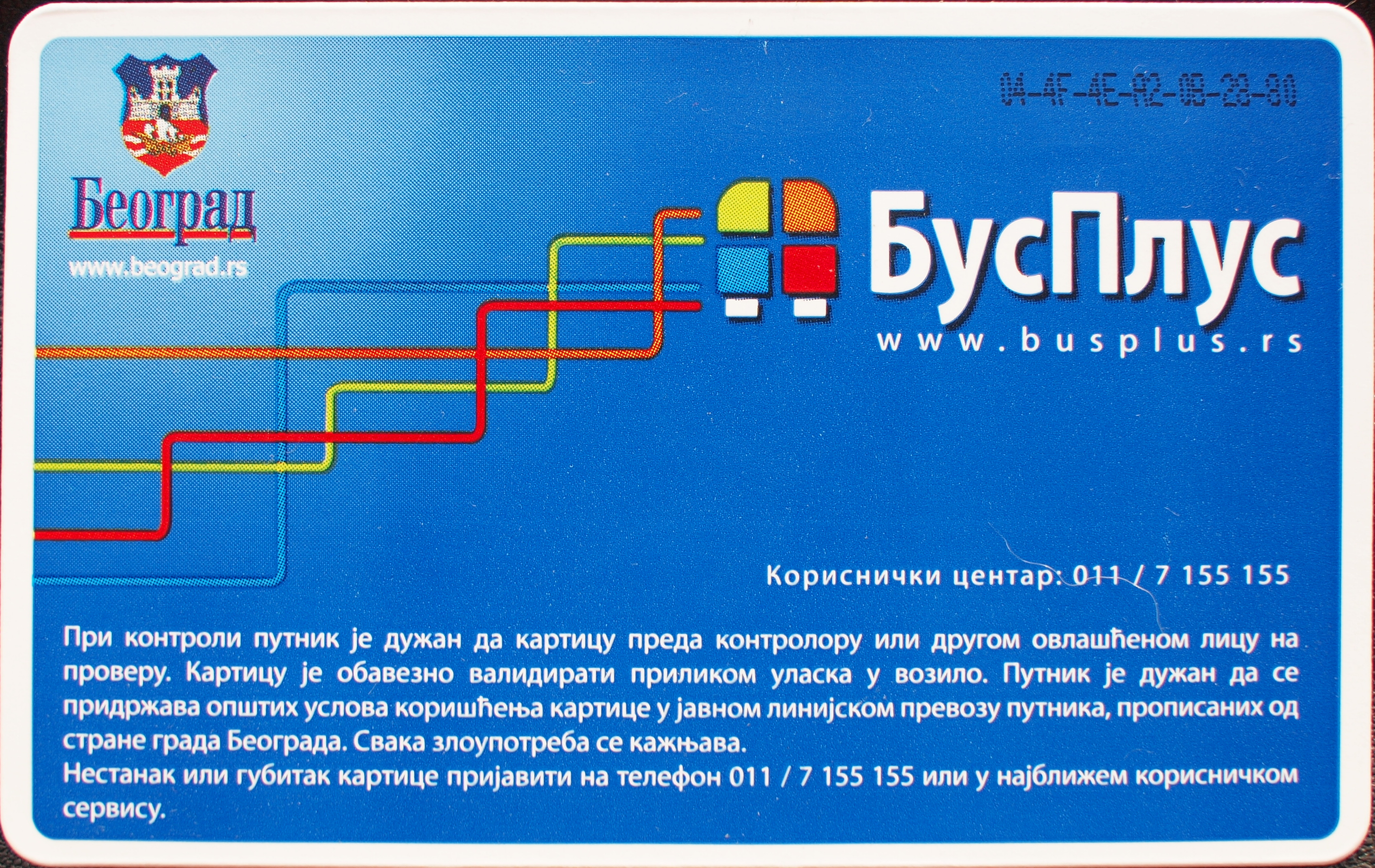 Bus plus chipcard 2